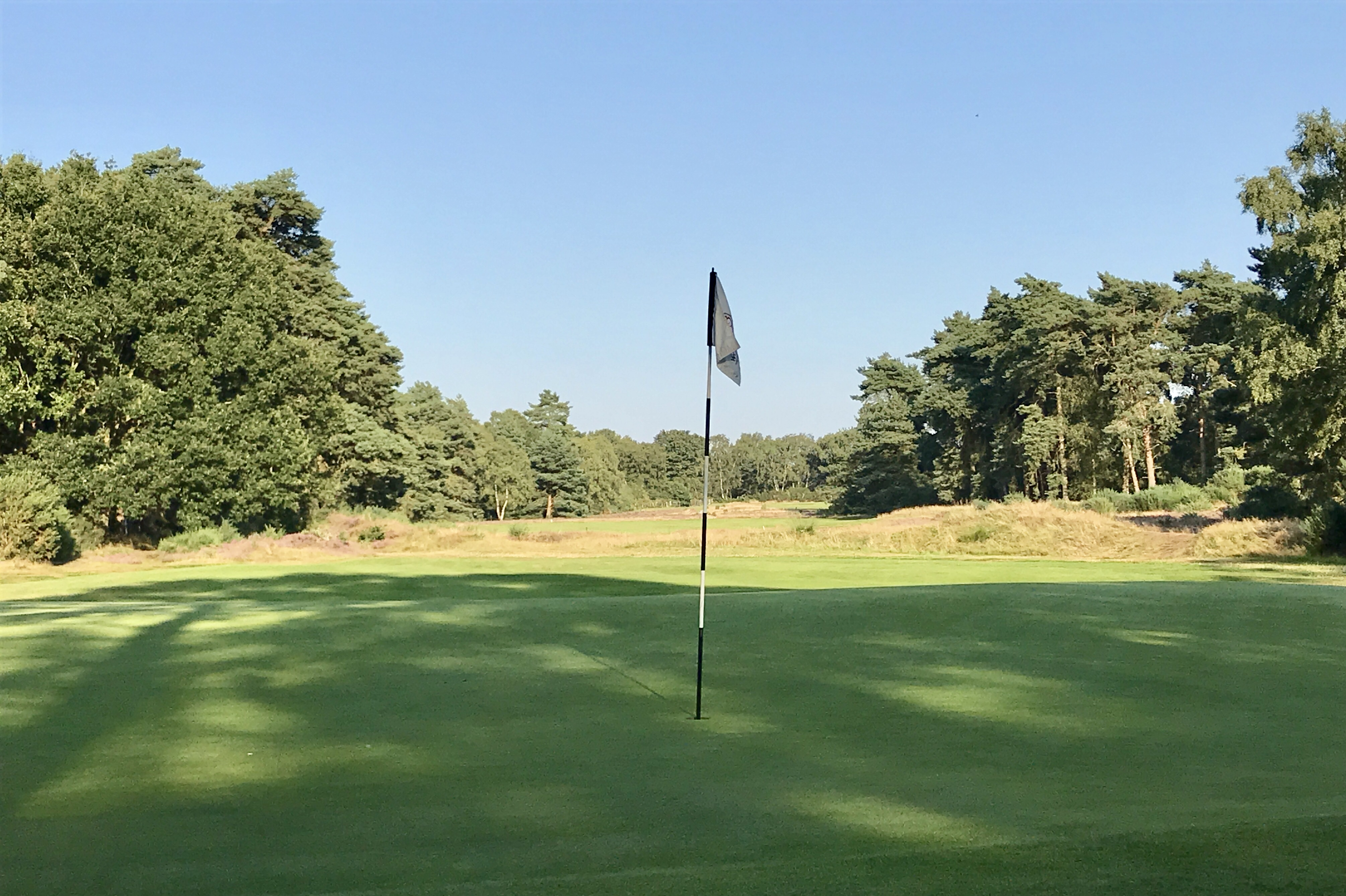 WSGC 11th Hole